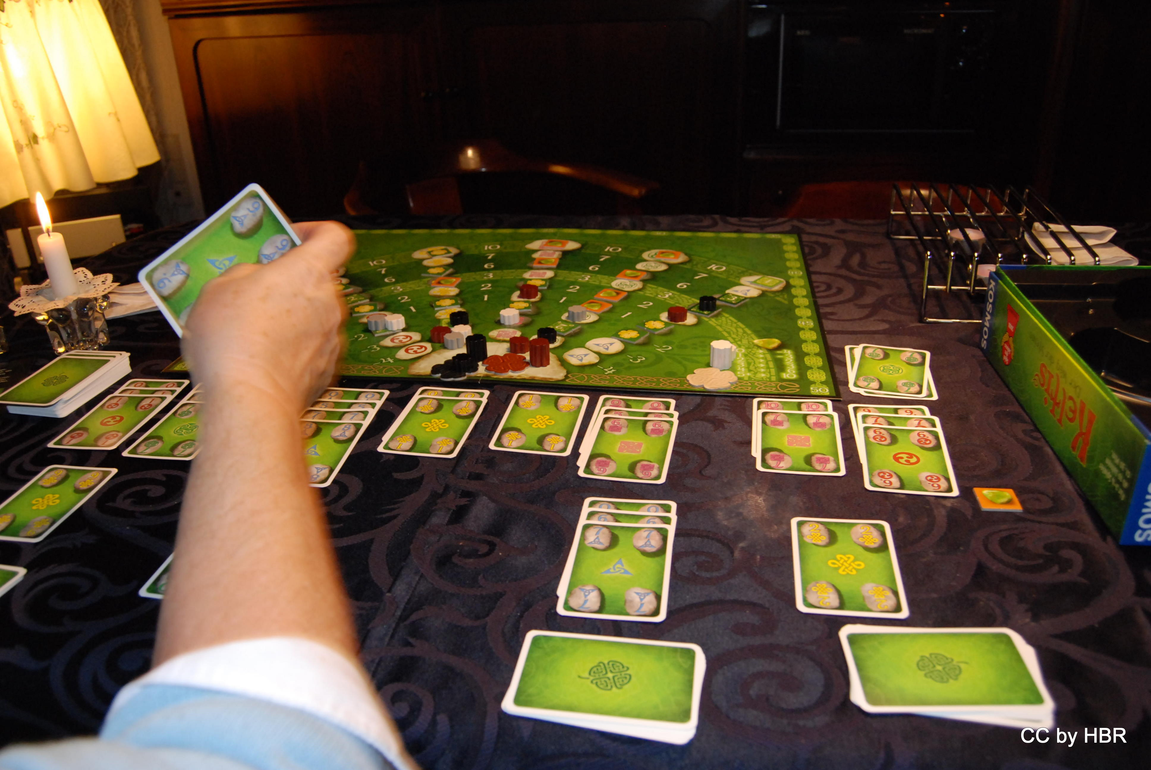 Keltis, Game of the Year 2008